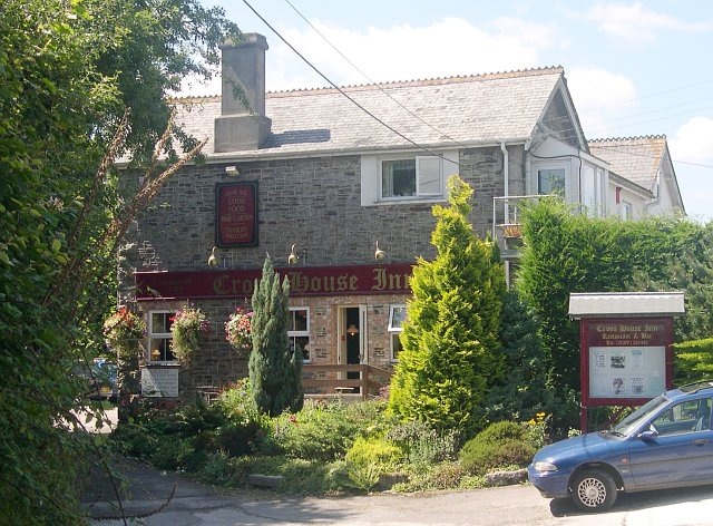 The Cross House Inn, Metherell. This building, as seen in the photograph, does not look much like a public house and indeed it was originally a farmhouse.